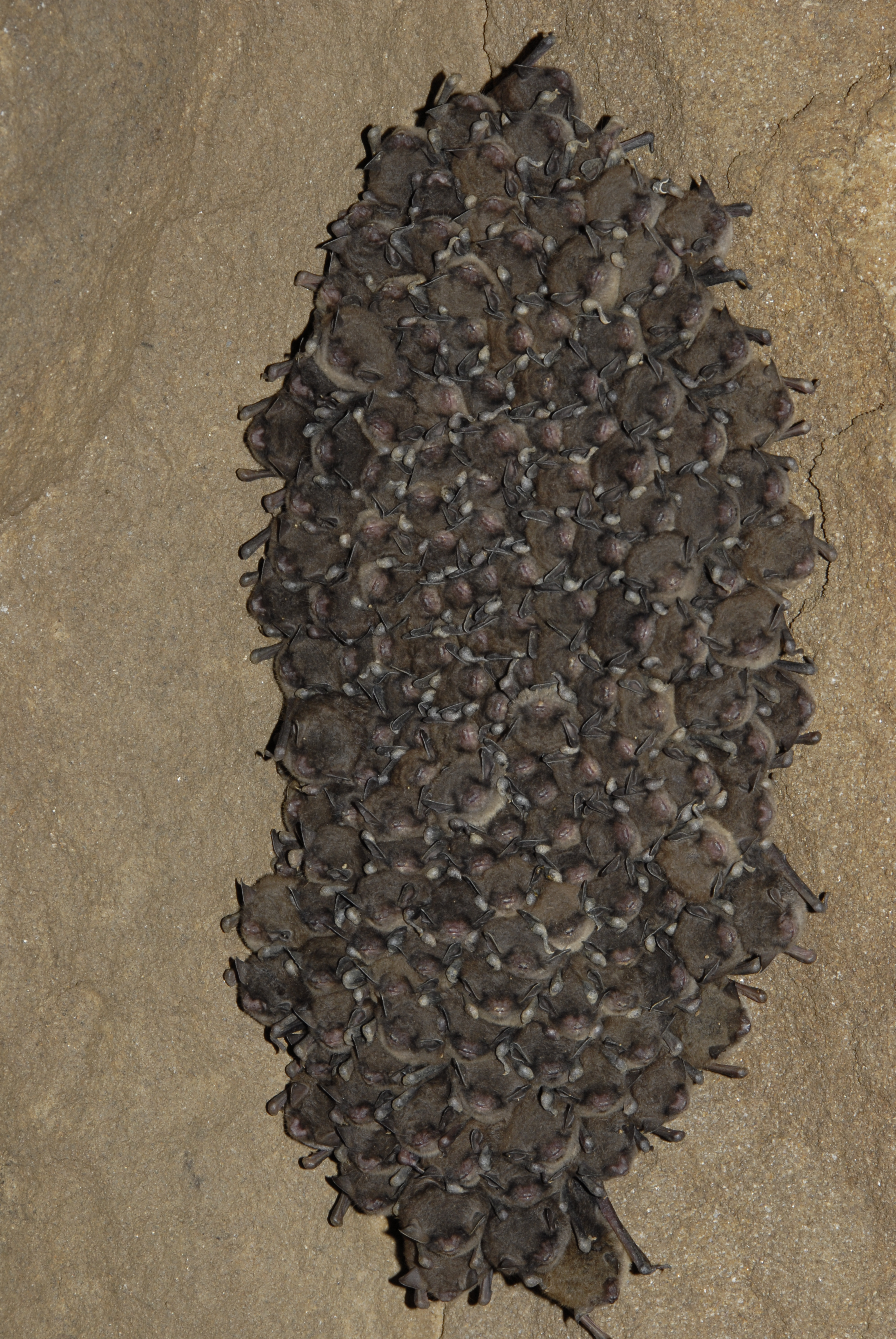 Typical Indiana bat cluster during hibernation before White-nose Syndrome was discovered and confirmed in an abandoned limestone mine on the Wayne National Forest in Lawrence County, Ohio. Note the presence of a banded bat at the far left. Credit: Tim Krynak